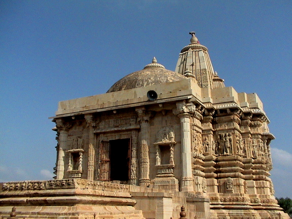 landmark Jain temple at Kirtistambha